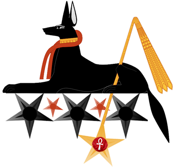 Anubis as a jackal perched atop a tomb, alert and ready to defend. Anubis is also depicted as a jackal headed man.[1] Based on New Kingdom tomb paintings.